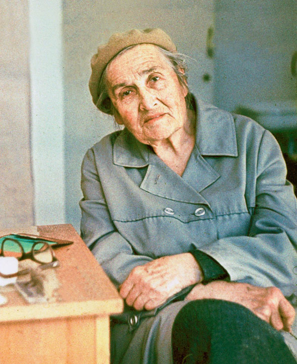 L.N.Vassiljeva 1970th, Vladivostok